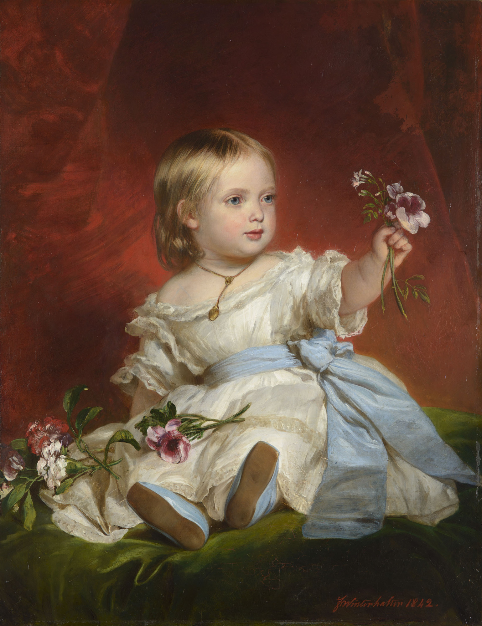 Portrait of Victoria, Princess Royal (1840-1901)